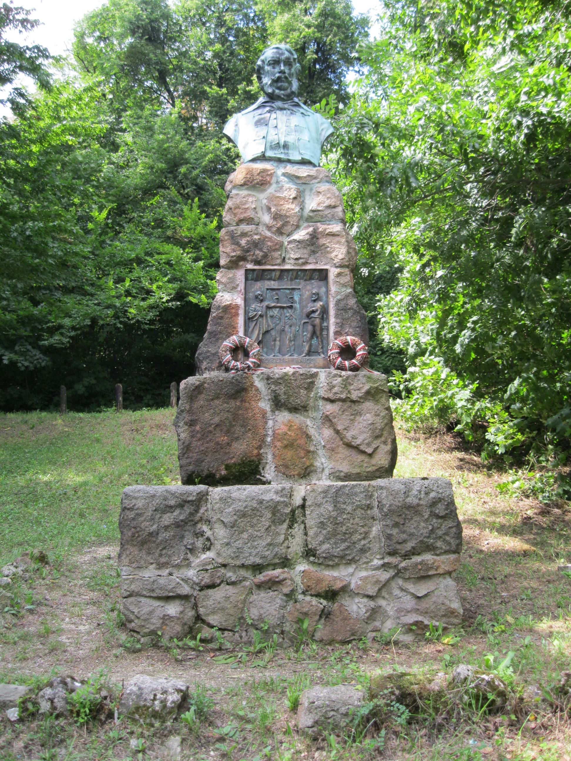 Memorial of Lajos Kossuth in Budapest, at Tündérhegy Road